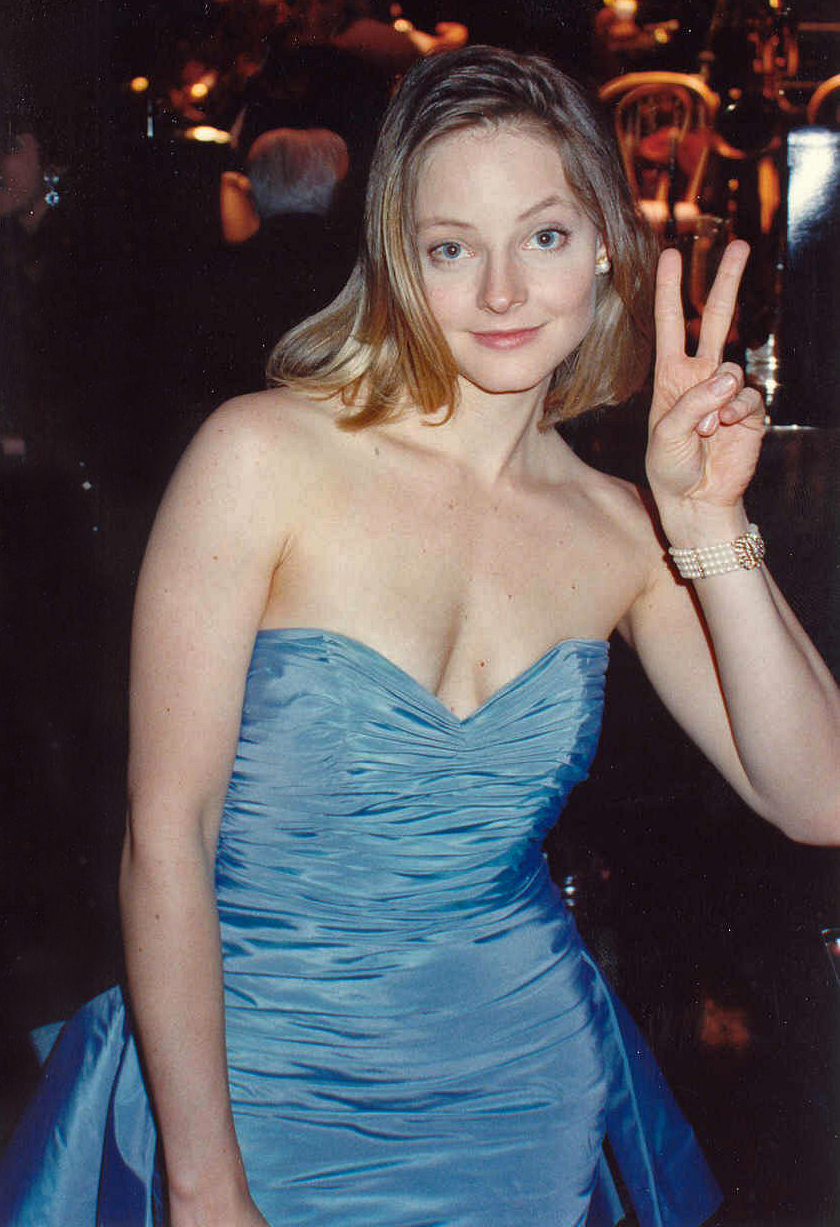 Jodie Foster at the Academy Awards. Photo taken at 61st Academy Awards March 29, 1989 - Governor's Ball